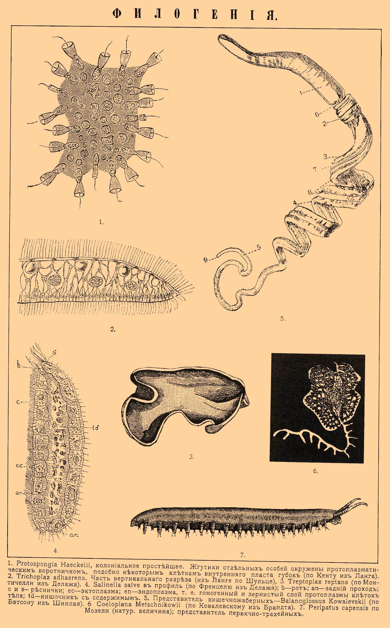 Illustration from Brockhaus and Efron Encyclopedic Dictionary (1890—1907)